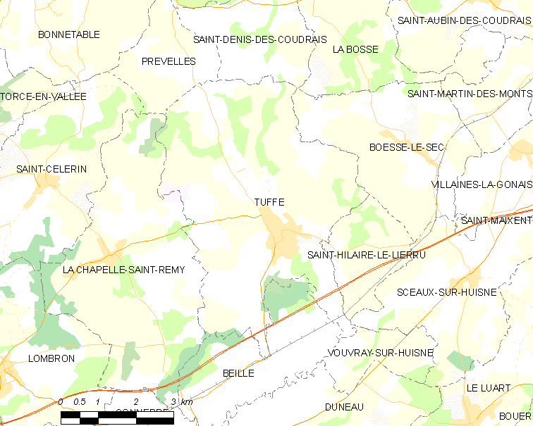 Map of French municipality